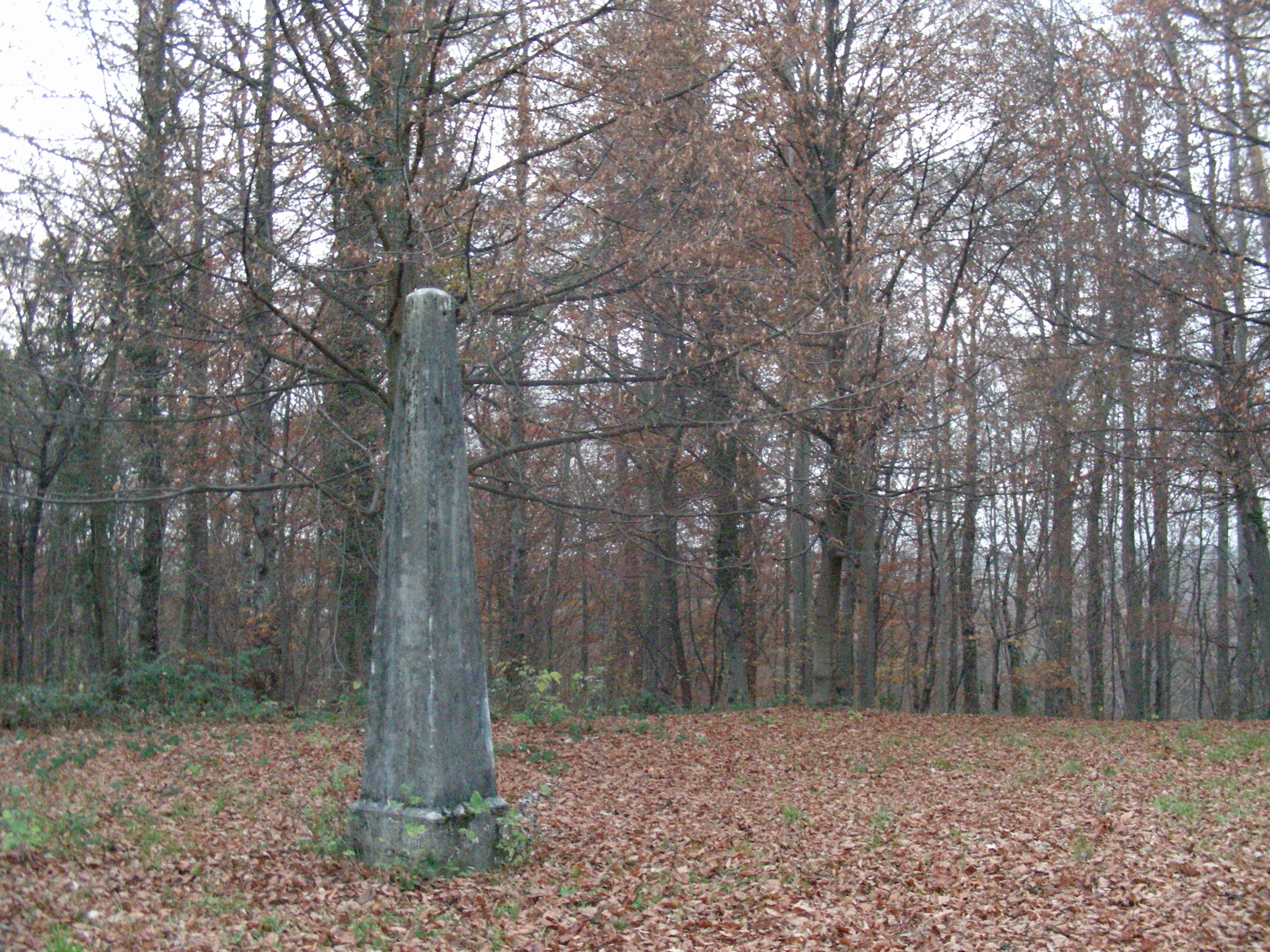 Emanuel Haller Memorial Lausanne lat.jpg] [Northern side (French)